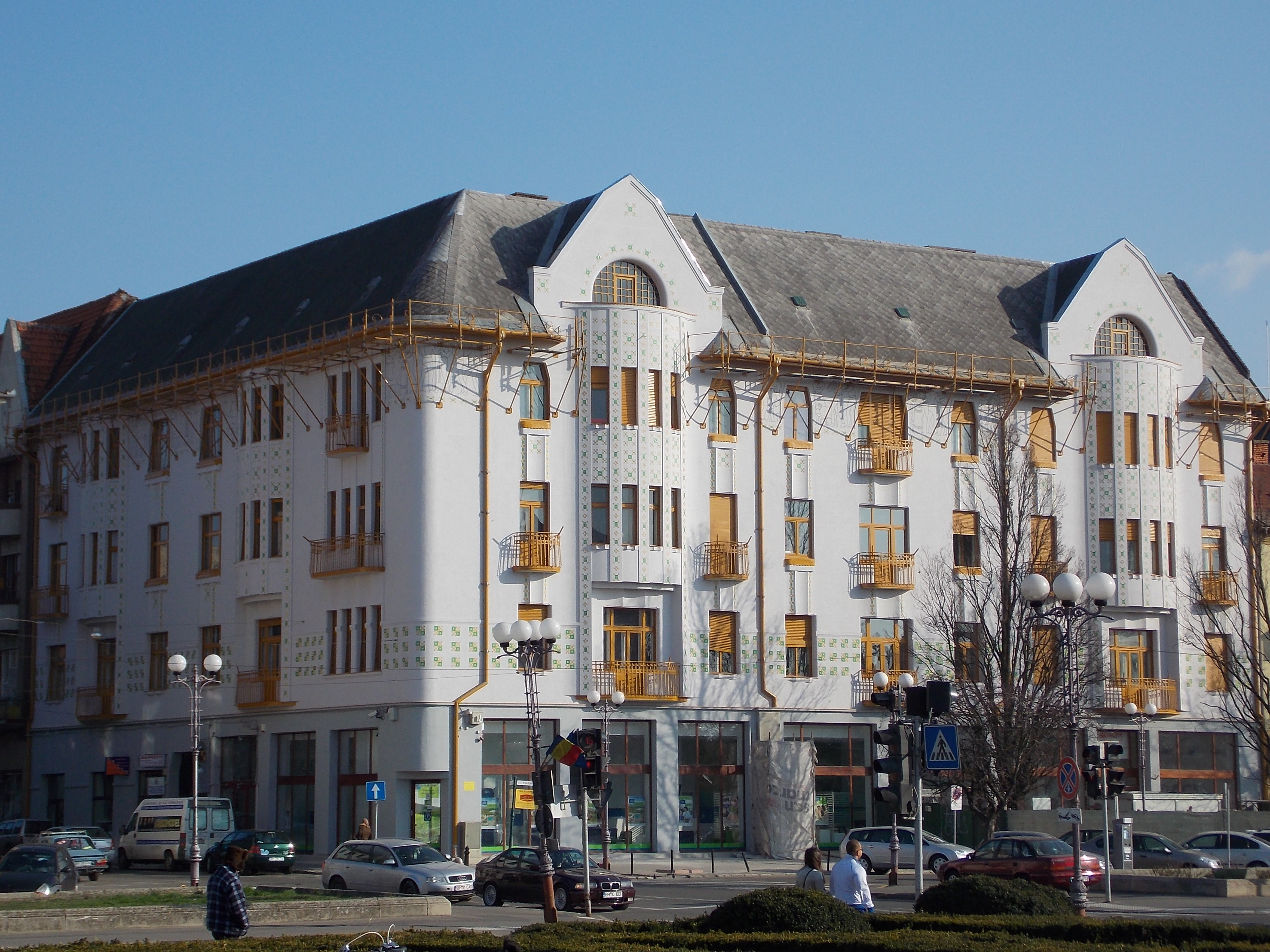 Moskovits Adolf and sons PalaceRomână: Palatul Moskovits Adolf și fii